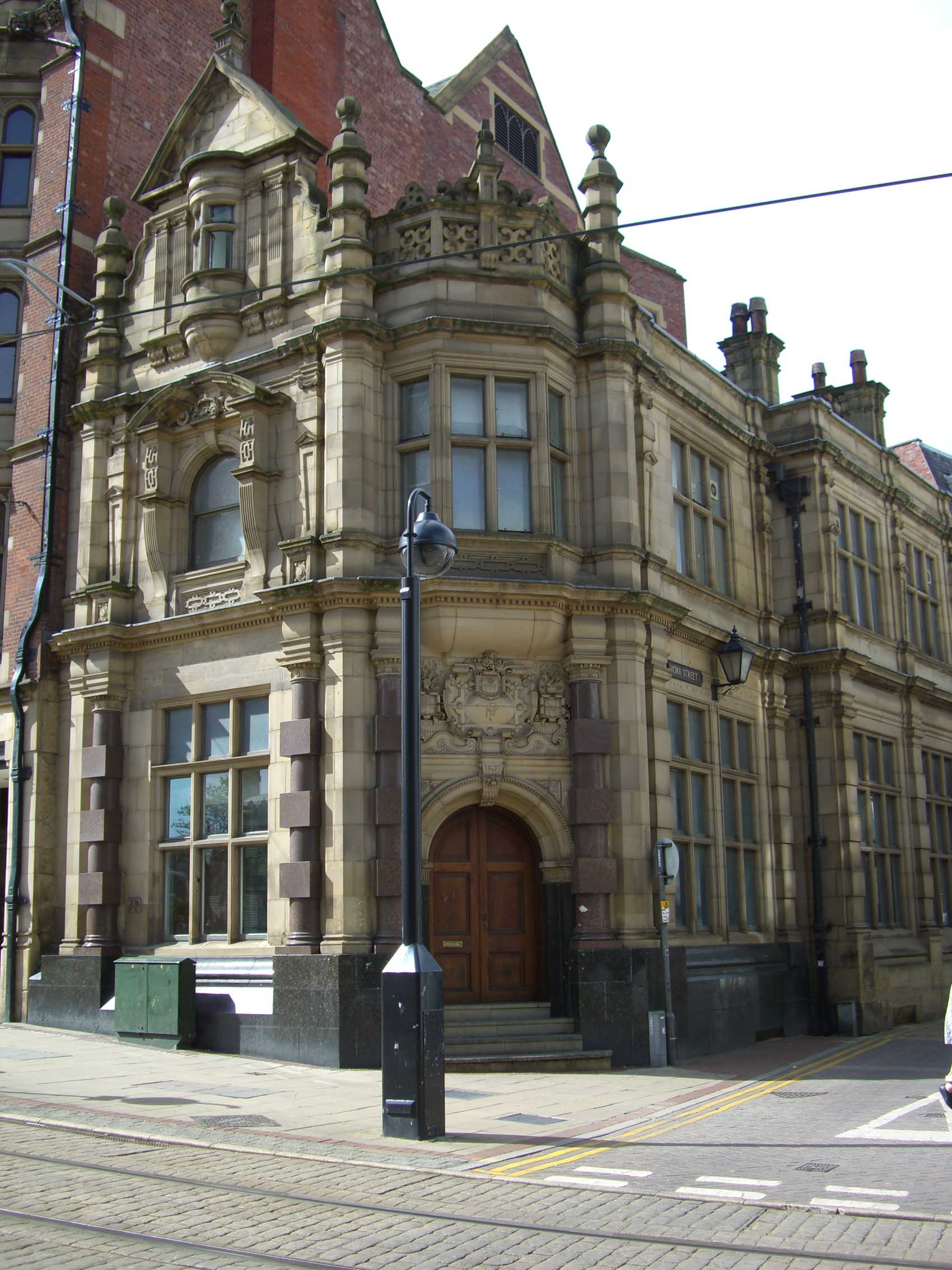 The Bank Building, High Street, Sheffield